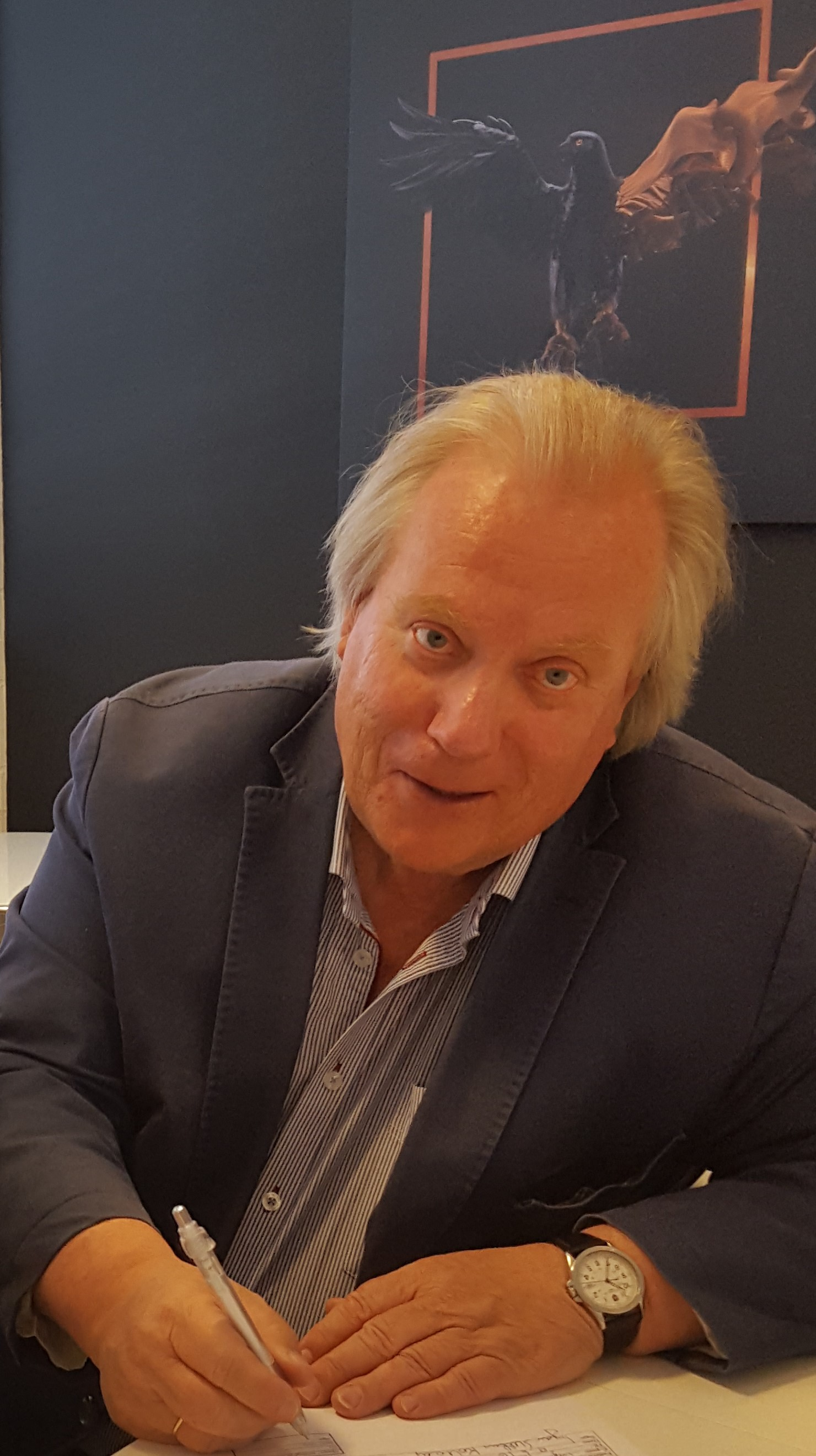 Ingar Sletten Kolloen